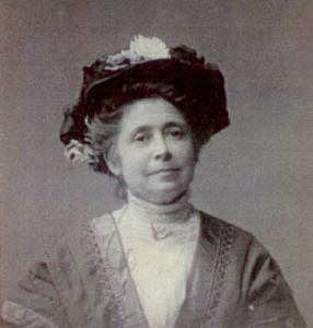 Lillias Horton Underwood 조선말: 릴리어스 호튼 언더우드